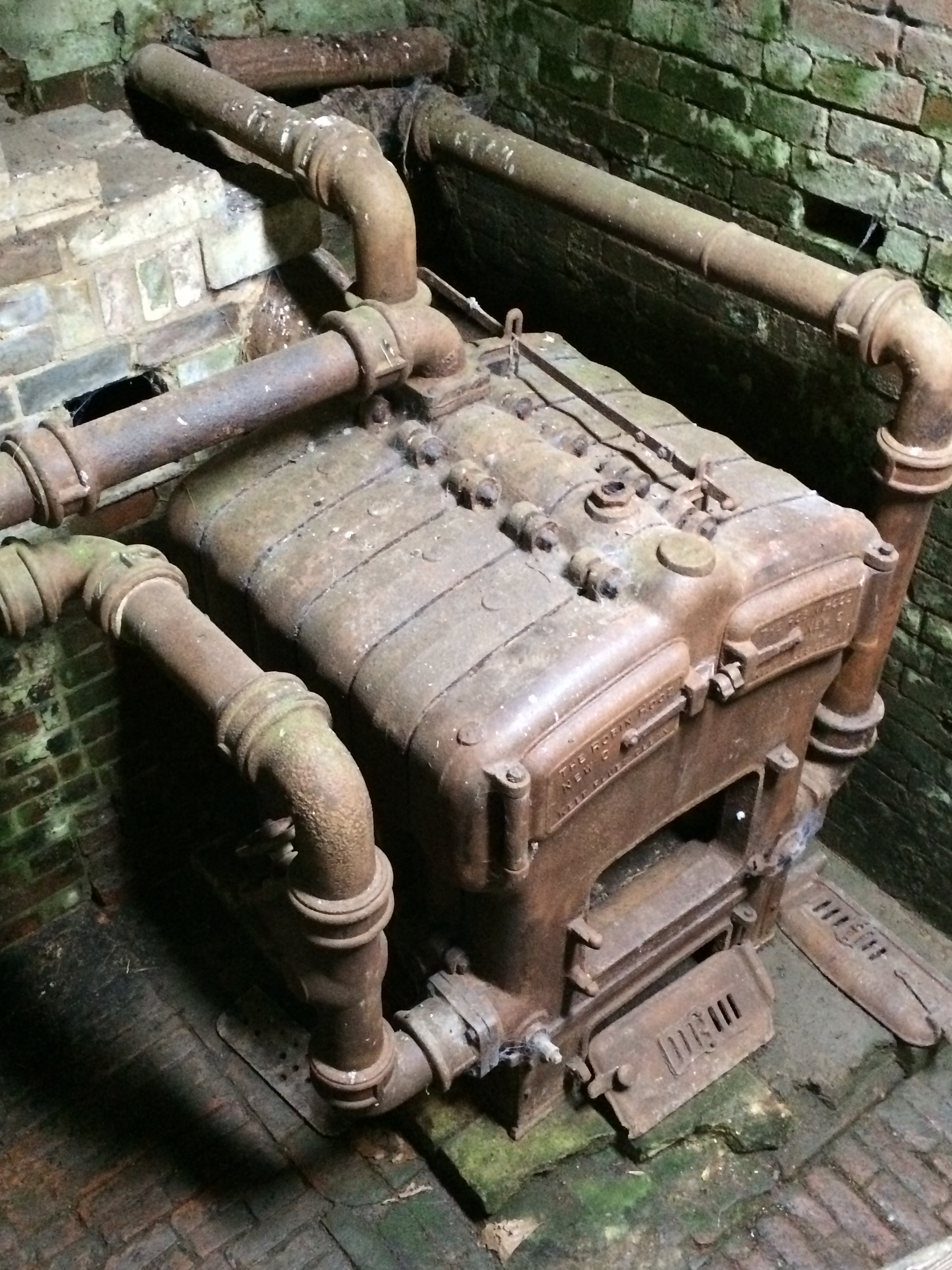 Robin Hood boiler at Calke Abbey, made by the Beeston Boiler Company, Nottinghamshire.